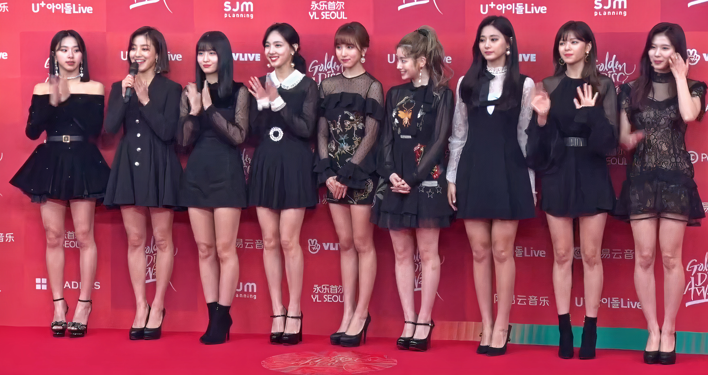 Twice at Golden Disk Awards on January 5, 2019.